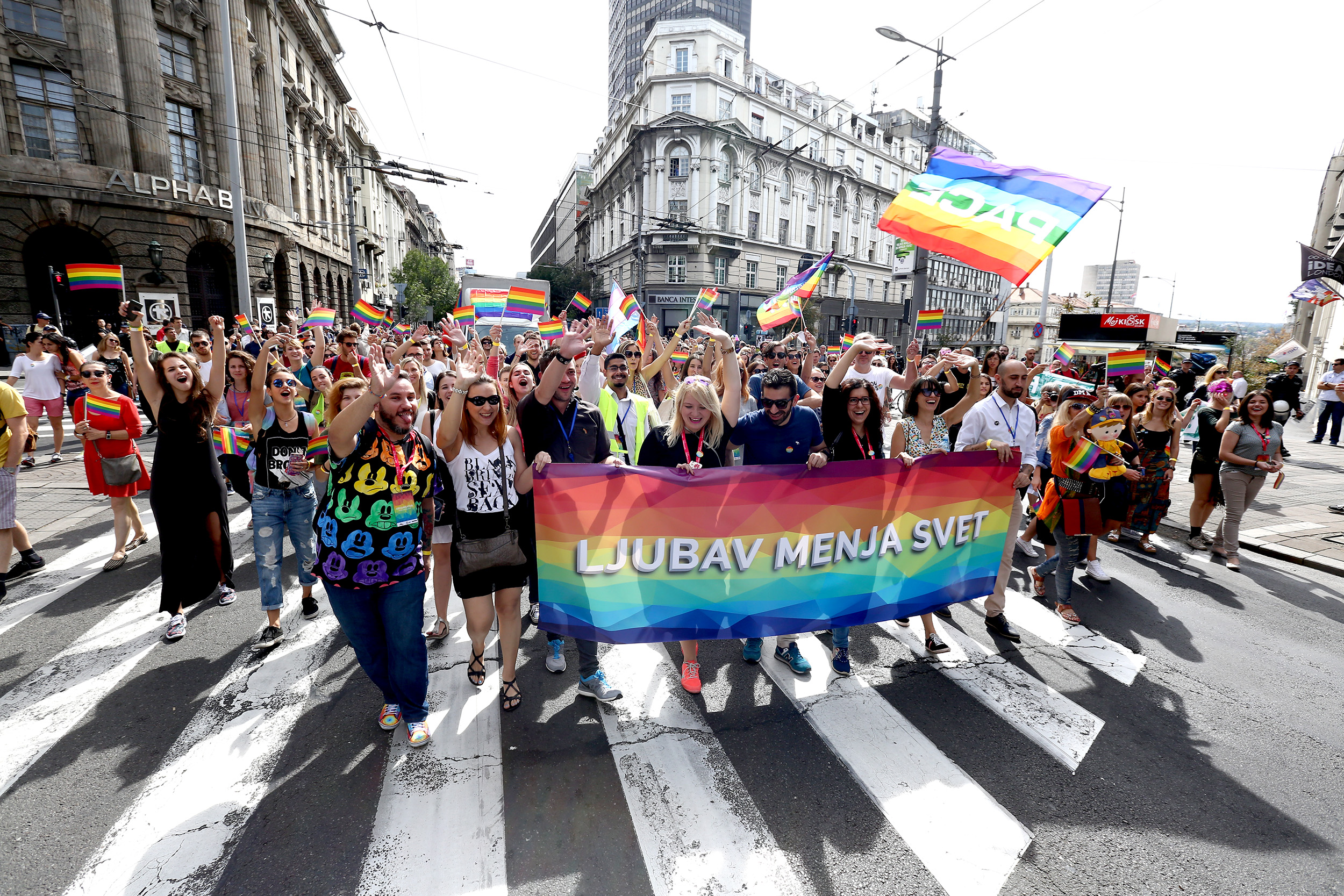 Belgrade Pride Parade 2016, September 18, 2016.